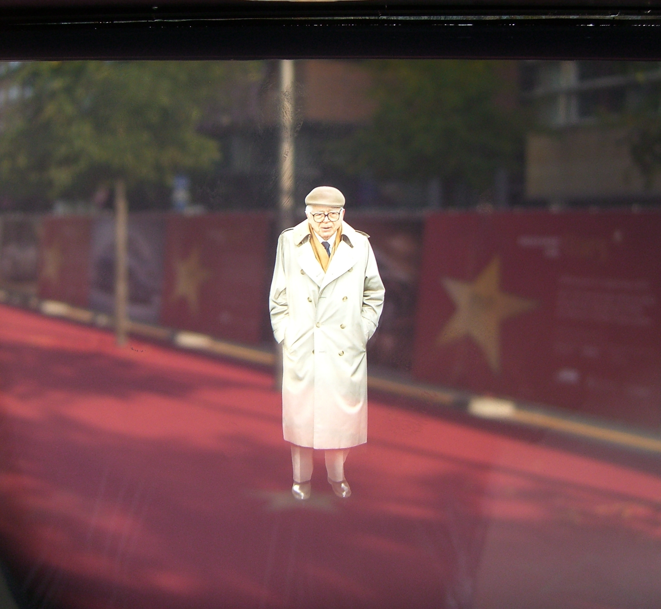 Billy Wilder on his star seen through a Pepper’s Ghost Camera at the "Boulevard der Stars" in Berlin.